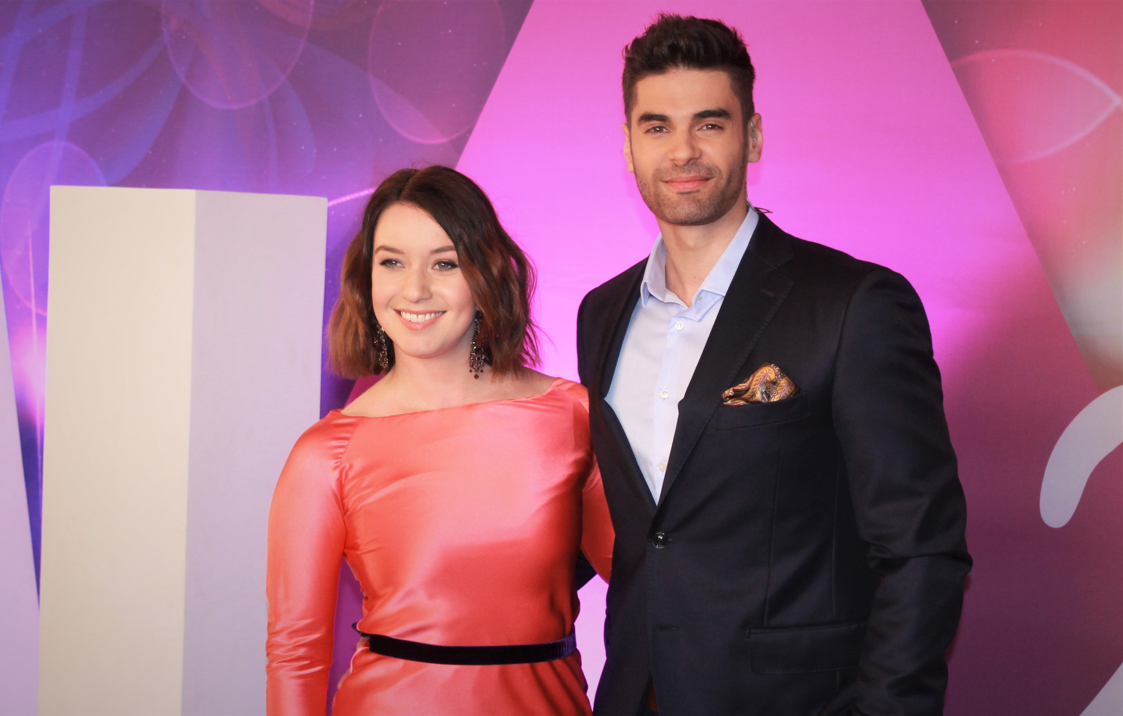 The hosts of A Dal 2018: Kriszta Rátonyi & Freddie